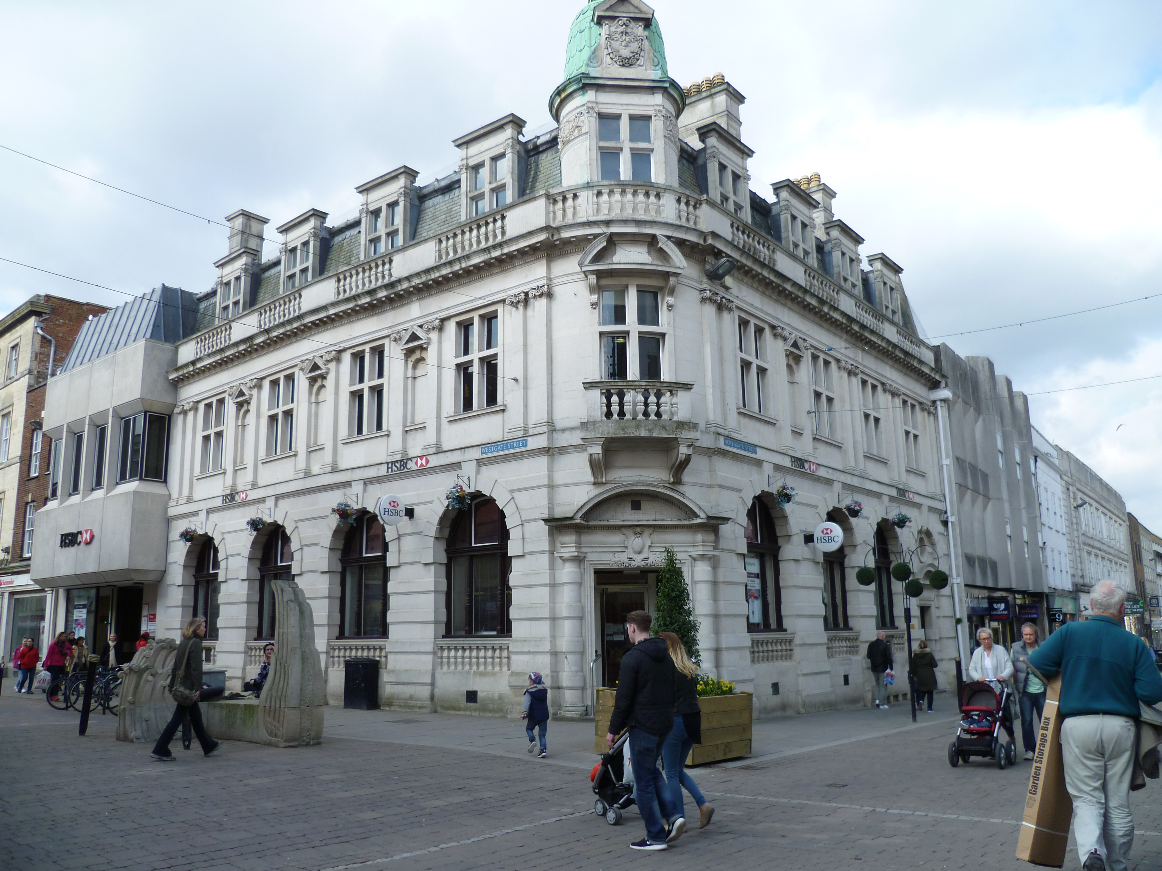 Gloucester